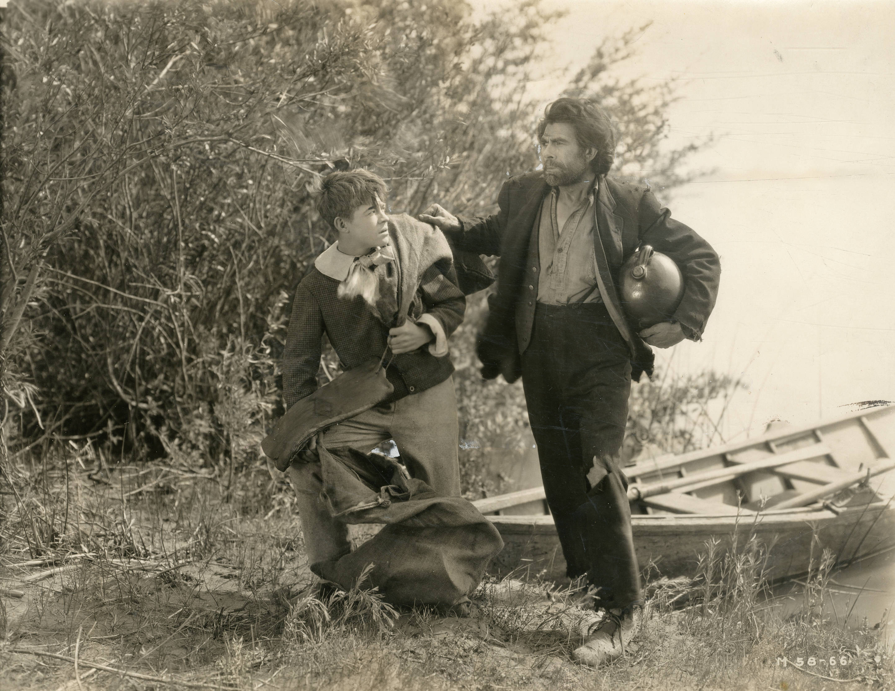 A scene from the American film Huckleberry Finn (1920) which played at the Coliseum Theater, Seattle. Date stamped June 29, 1920. Includes Lewis Sargent. Subjects: motion pictures, actors